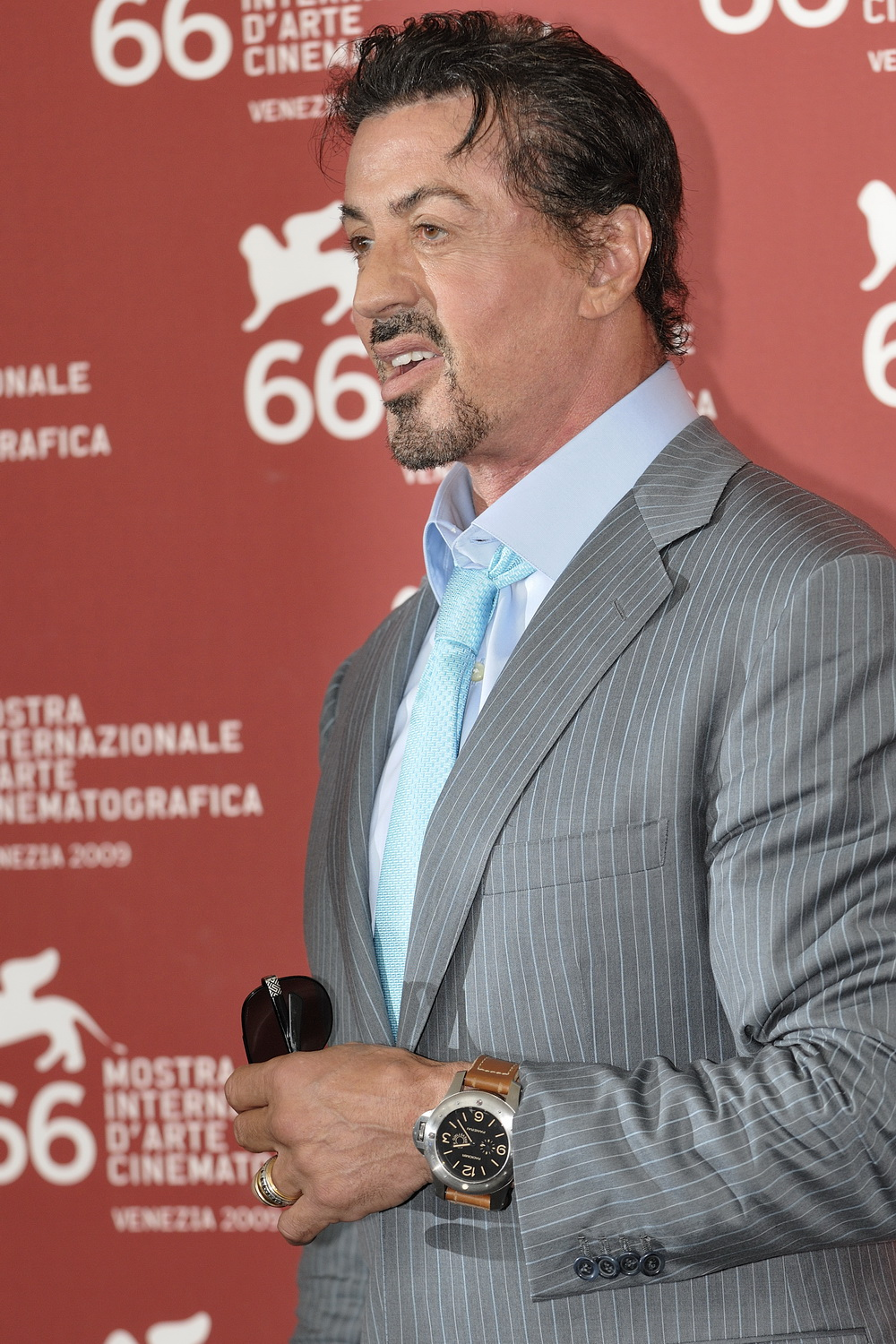 Sylvester Stallone at the 2009 Venice Film Festival. His watch is a Panerai Egiziano, one of the largest luxury watches, at 60mm diameter. Production is limited to only 300 pieces.